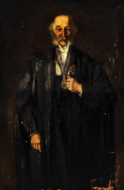 Sir William Fitzherbert, by Eleanor Sperrey. Te Papa (1992-0035-797)